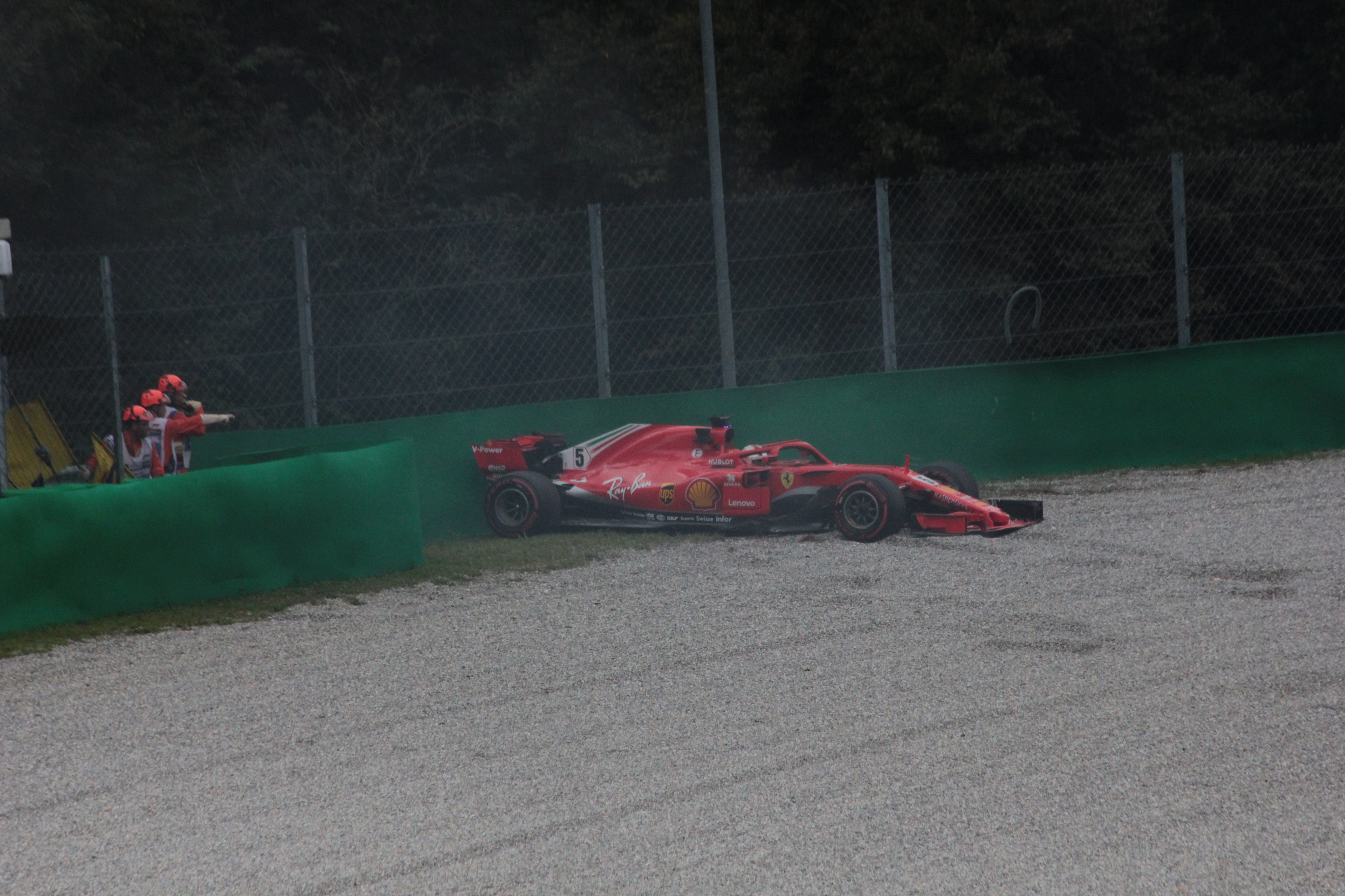 Sebastian Vettel spins off track during the second free practice session of the 2018 Italian GP.